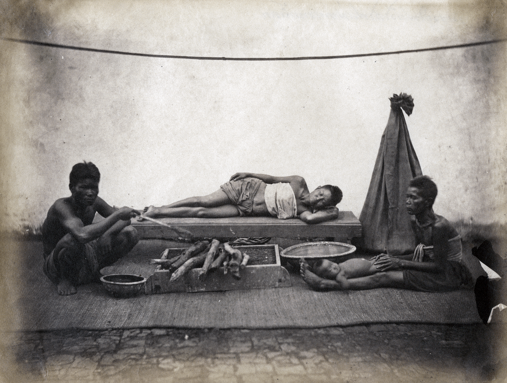 Children the mother lying before the fire